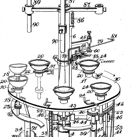 This part of a patent granted in 1916 for automatic centrifugal glassware making machinery.